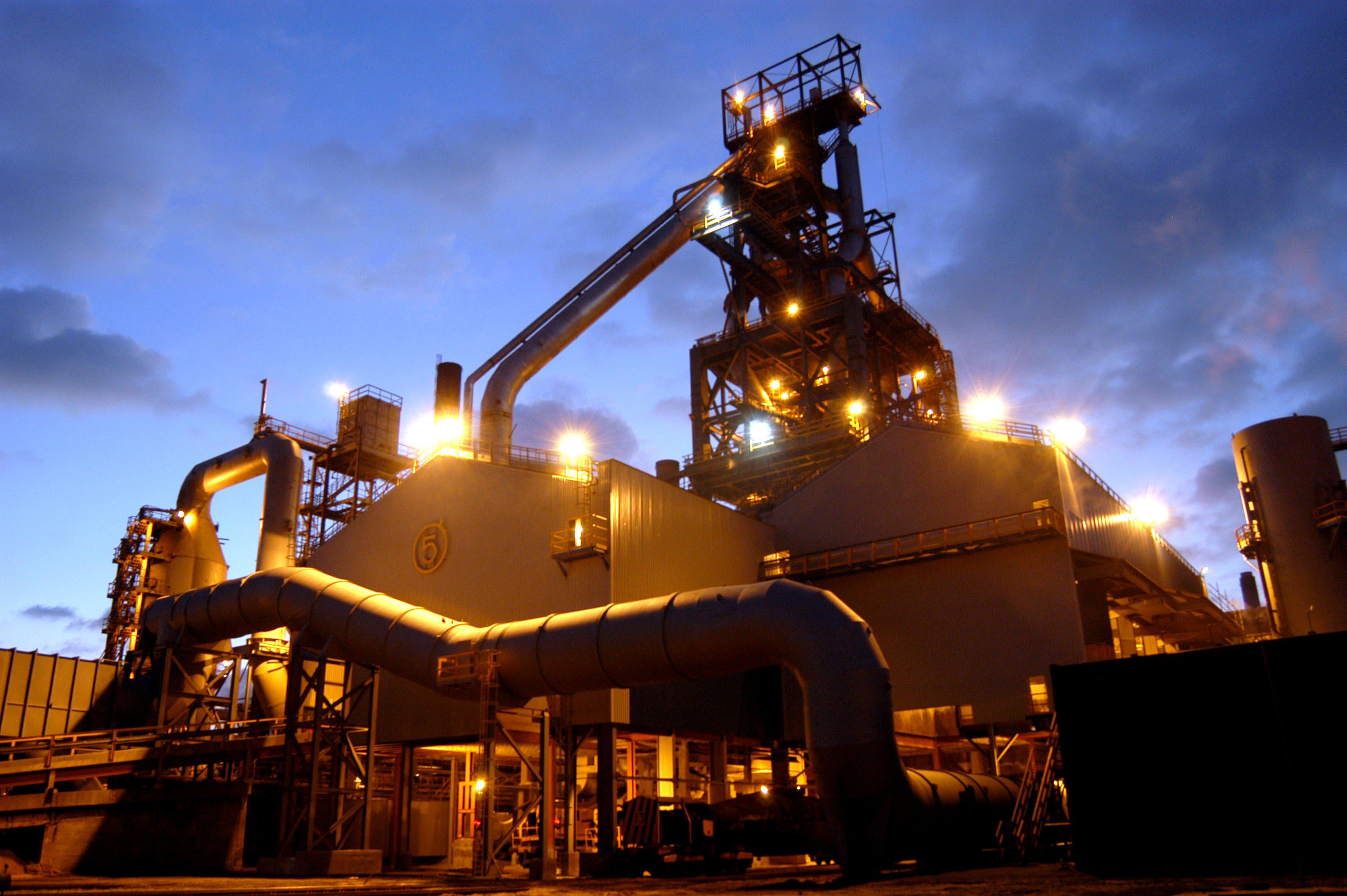 Corus (now Tata Steel) plant This is number 5 Blast Furnace located at the Port Talbot Corus Steel Plant South Wales UK.